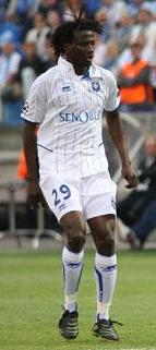 Delvin Ndinga